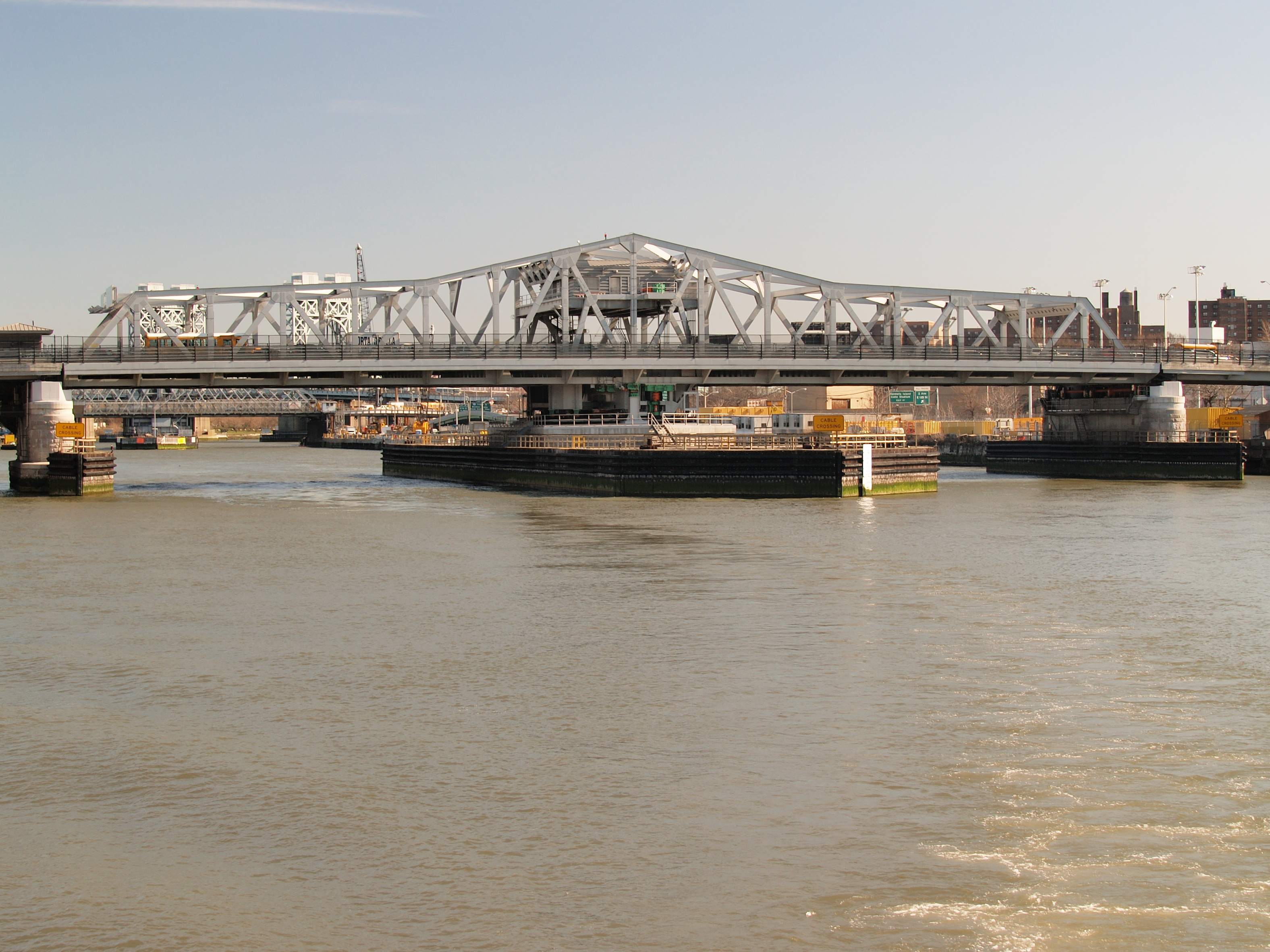 Tird Avenue Bridge, connecting Manhattan and Bronx in New York City, seen from NW.